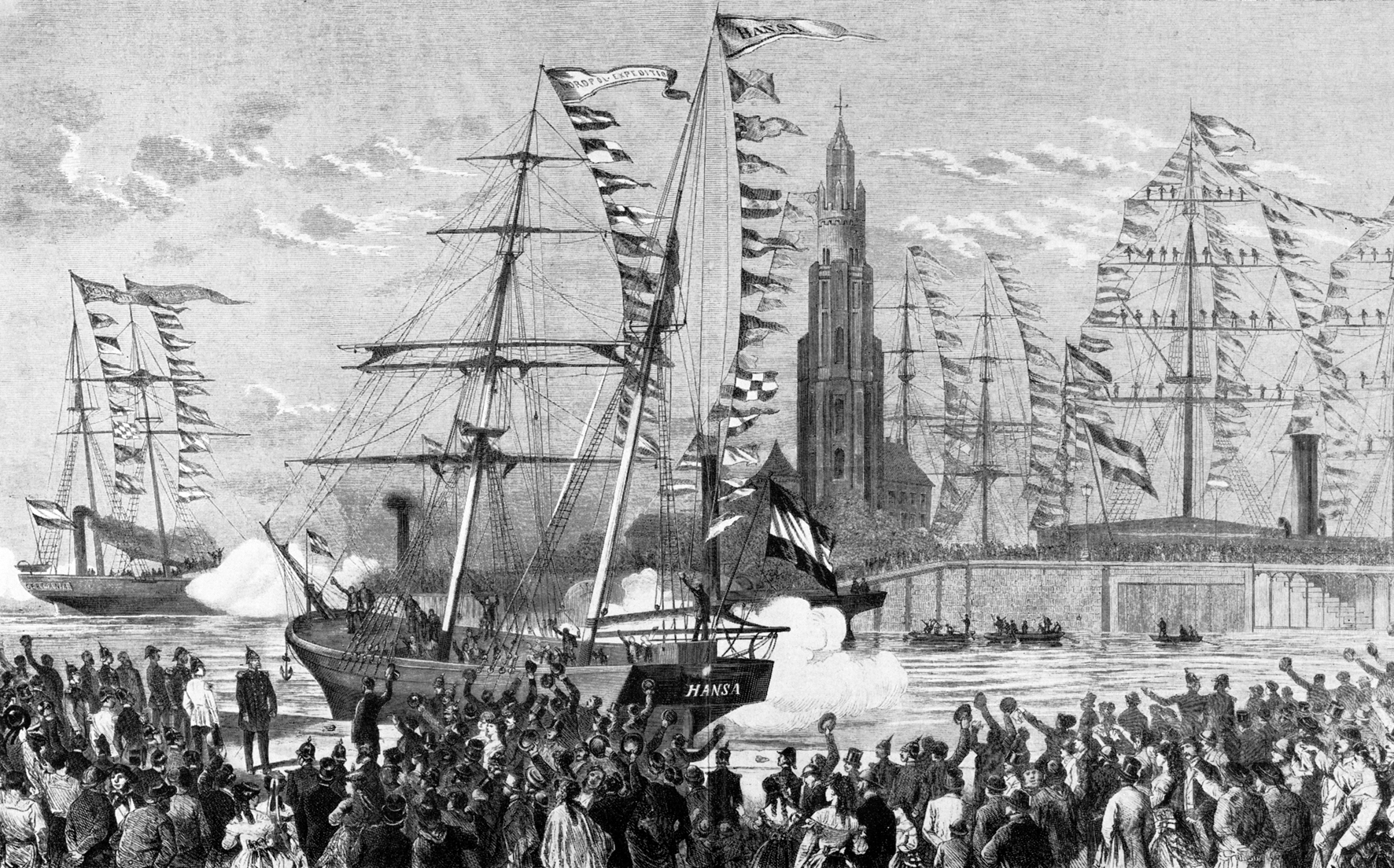 Departure of the ships Germania and Hansa of the second german polar expedition from Bremerhaven on the 15th of june 1869. Woodcut based on a drawing by Carl Justus Fedeler.